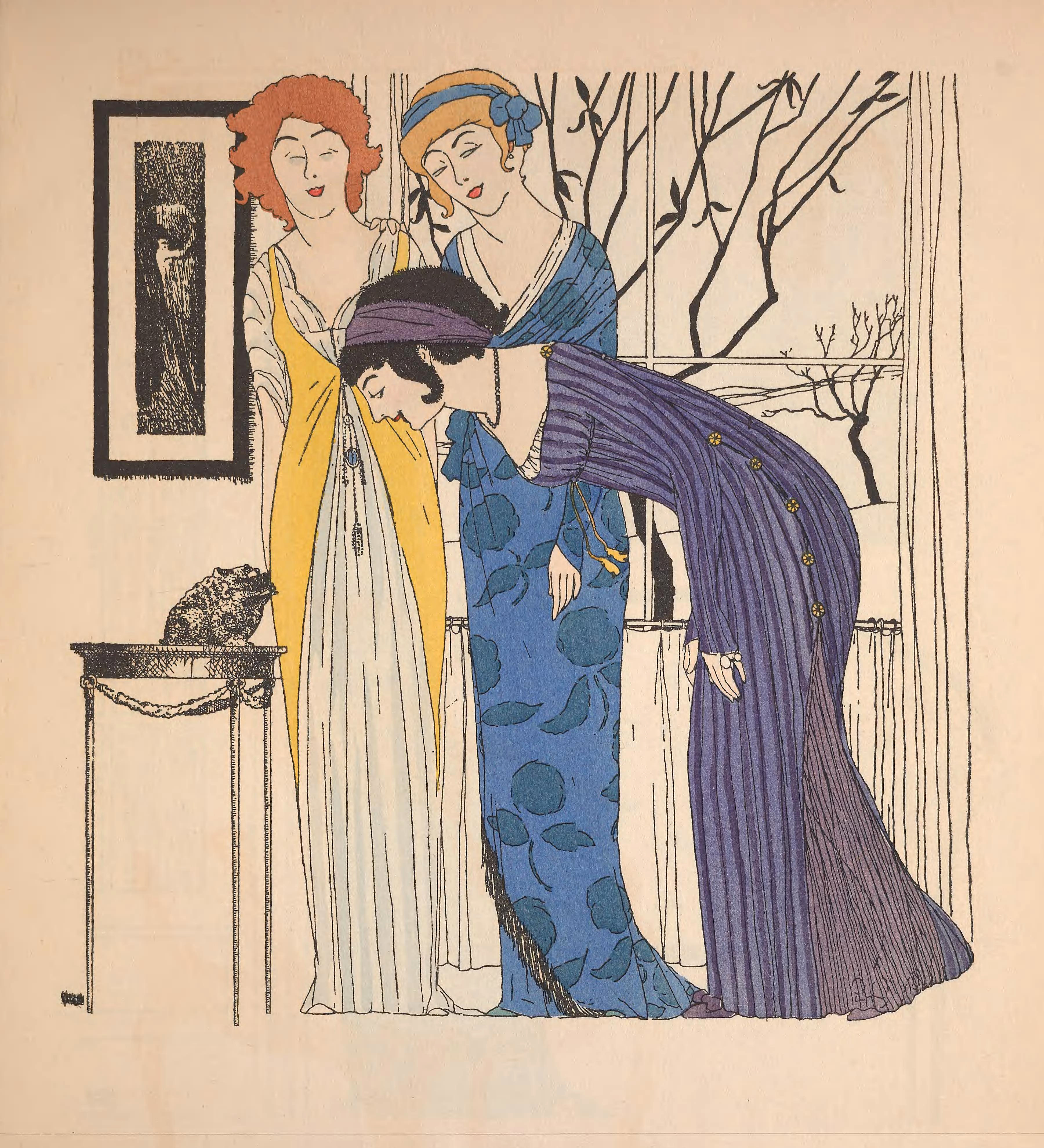 Fashon Designs by Paul Poiret, 1908. illustrated by Paul Iribe. Les Robes de Paul Poiret, p.17